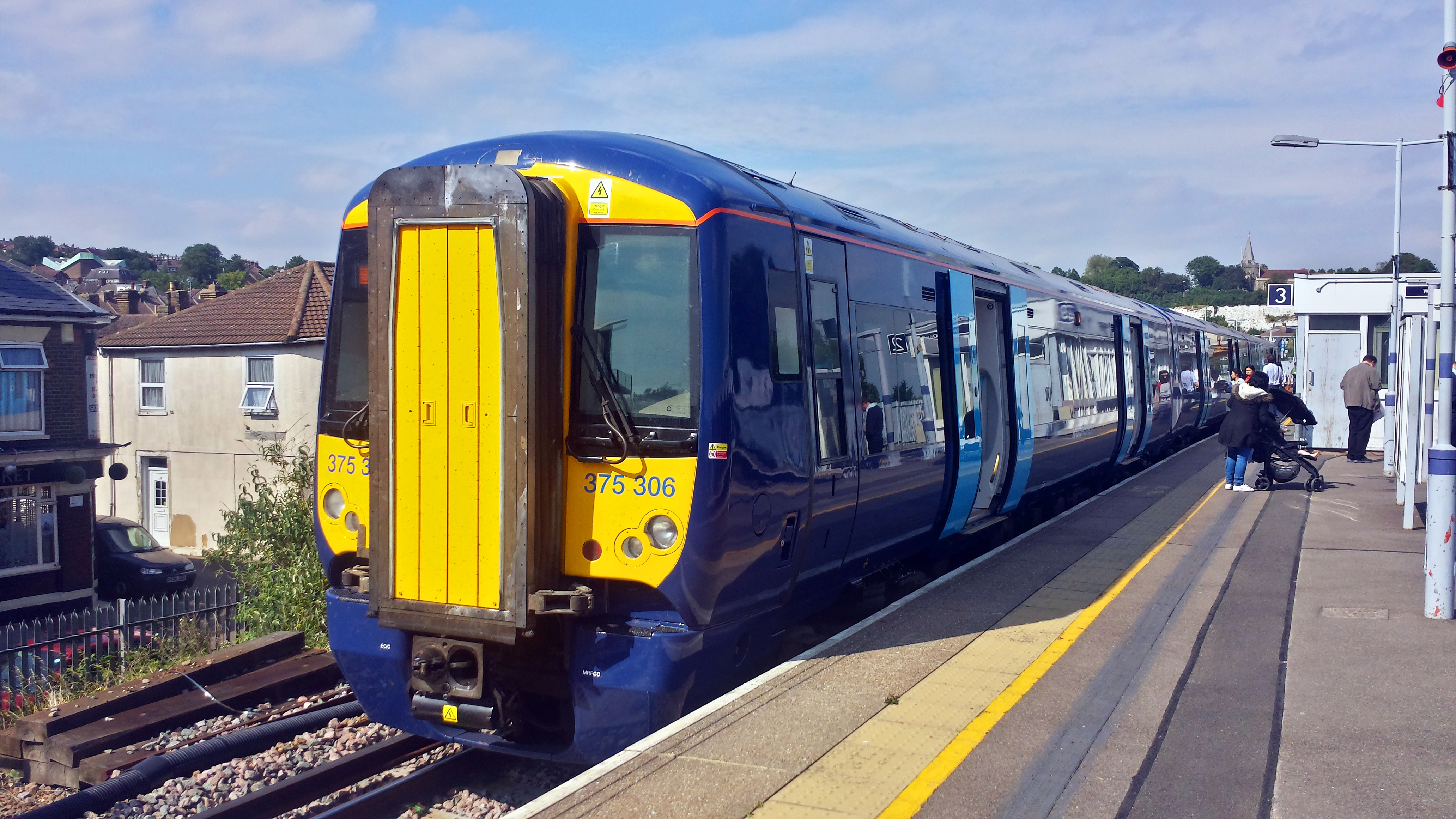 Refurbished 375306 sits in Strood on the 19 June 2015 Other information